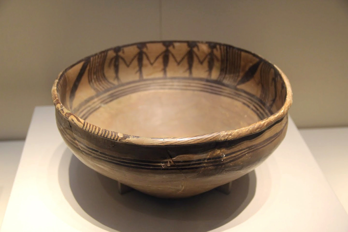 Neolithic pottery basin with groups of dancing figures, Majiayao Culture, Qinghai, 1973